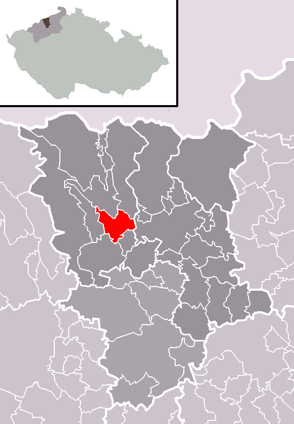 Location of Jeníkov municipality within Teplice District and administrative area of Teplice as a Municipality with Extended Competence.